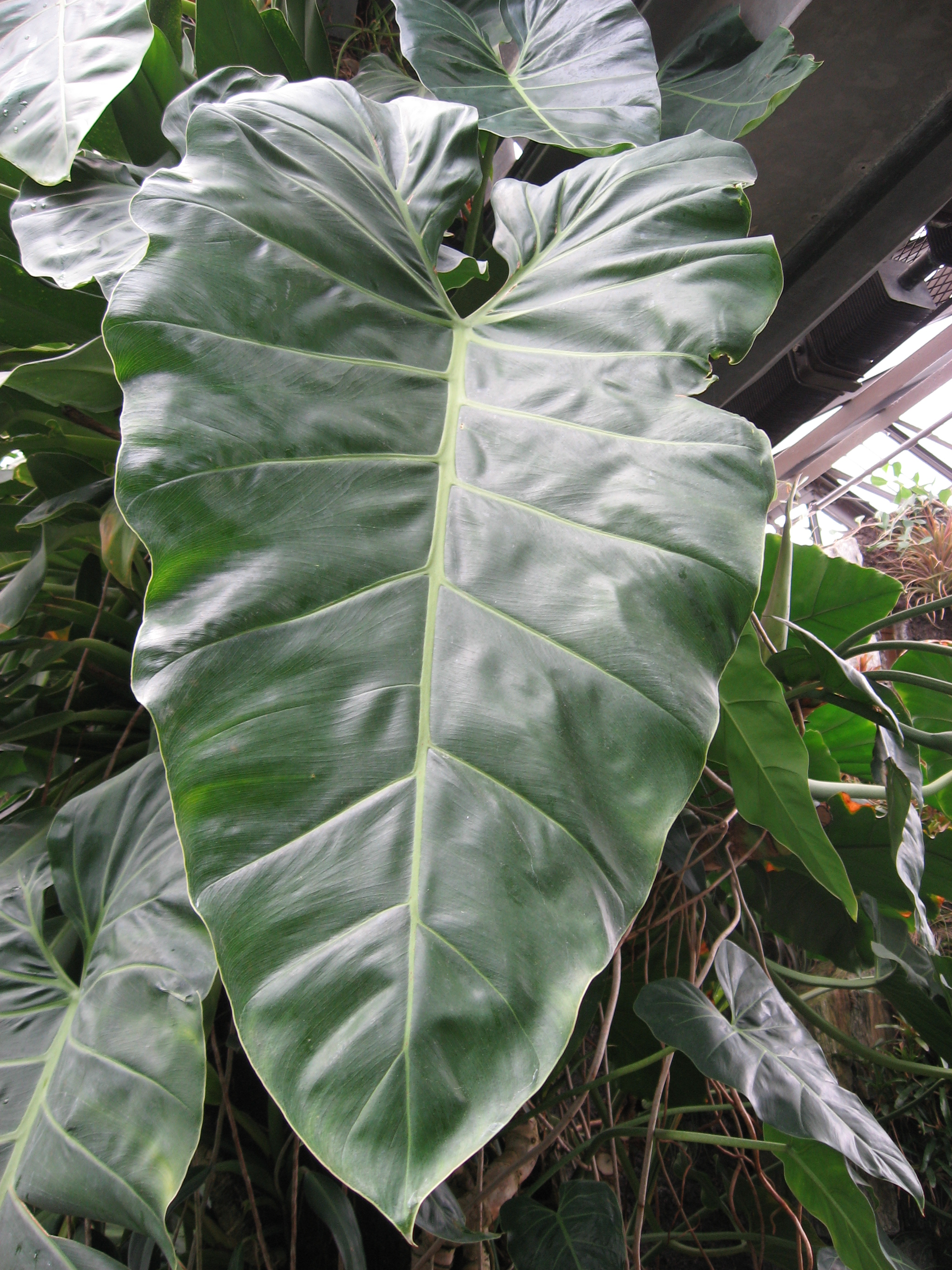 A picture of Philodendron maximum.